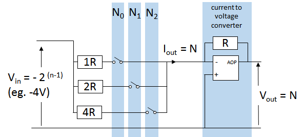 Digital Analog Converter binary weight resistor network electronic scheme